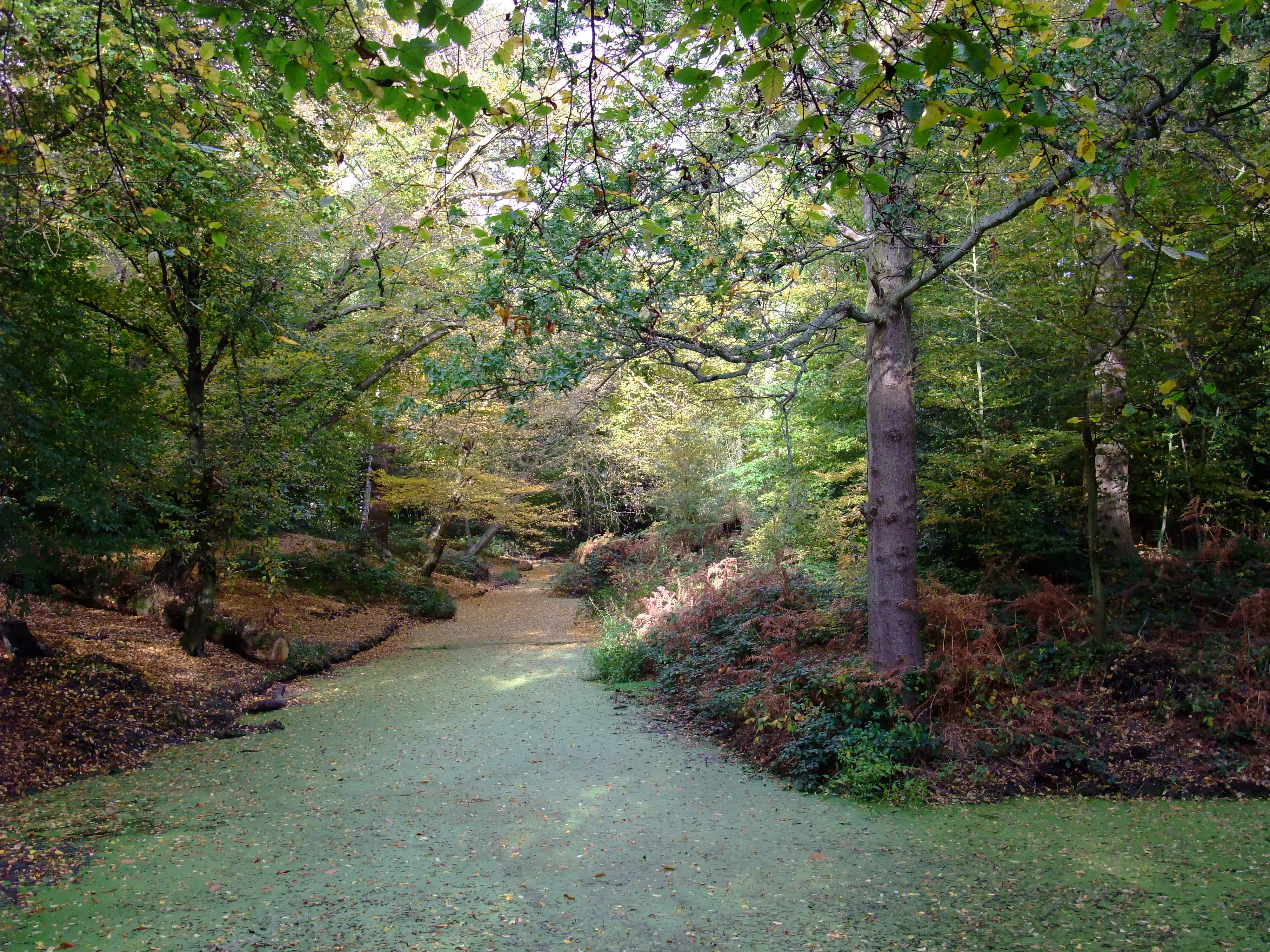 Photo from James Cridland.